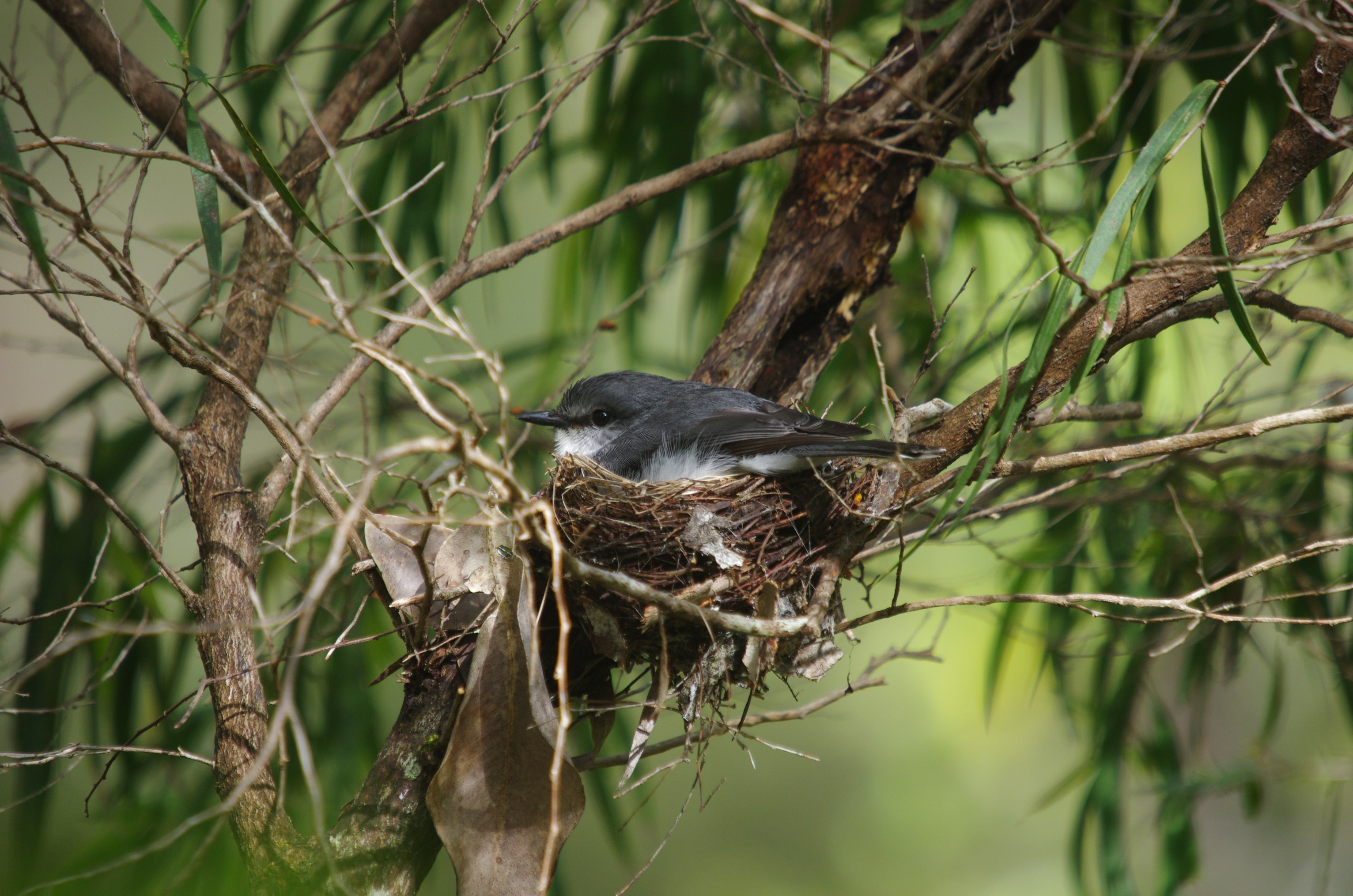 An adult White-breasted Robyn in its nest at Northcliff, Western Australia, Australia.